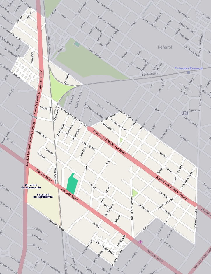 Street map of Sayago, Montevideo, exported from OpenStreetMap. I added shading to delimit the barrio. This map may be incomplete, and may contain errors. Don't rely solely on it for navigation.